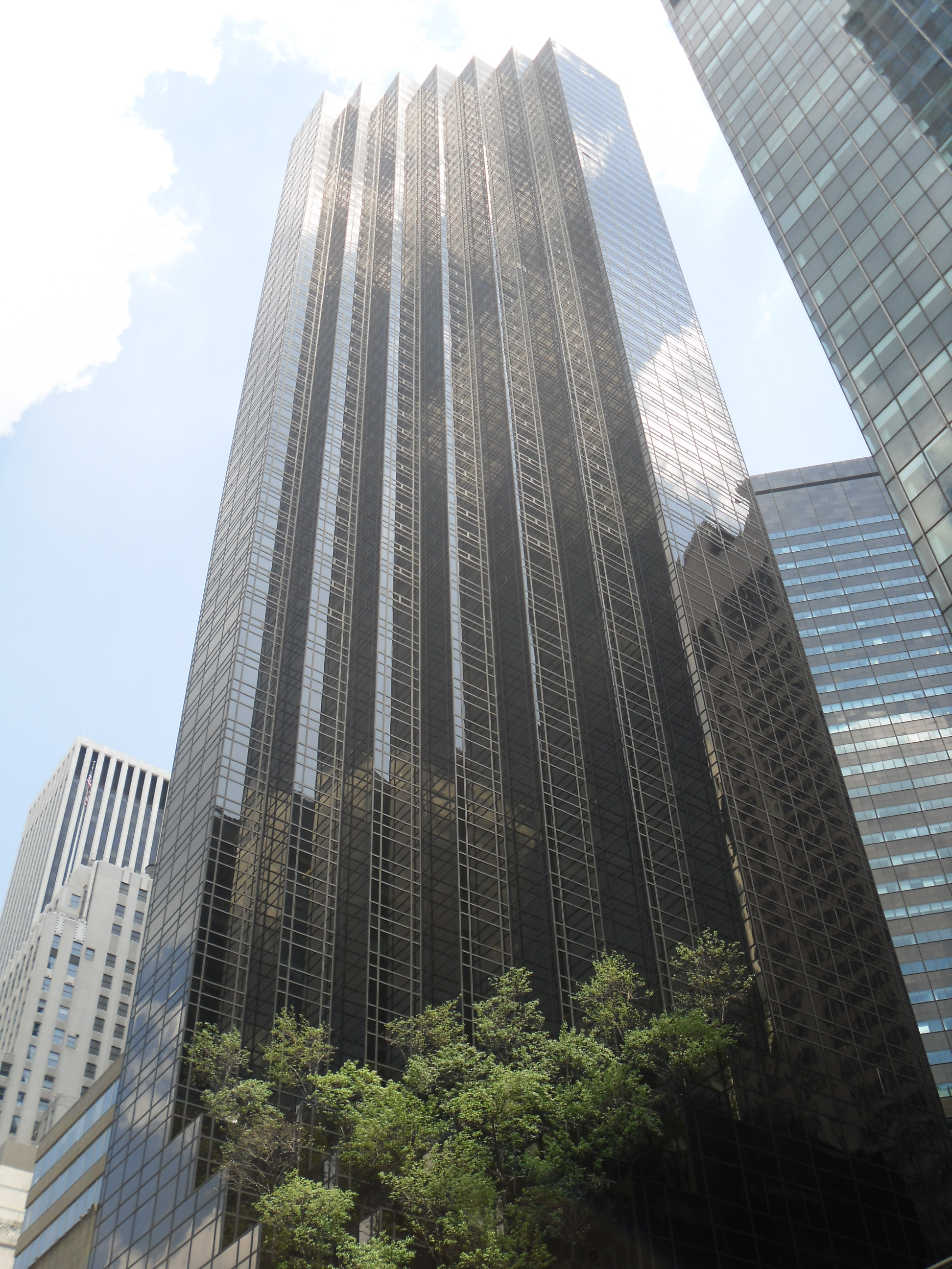 The Trump Tower, New York.